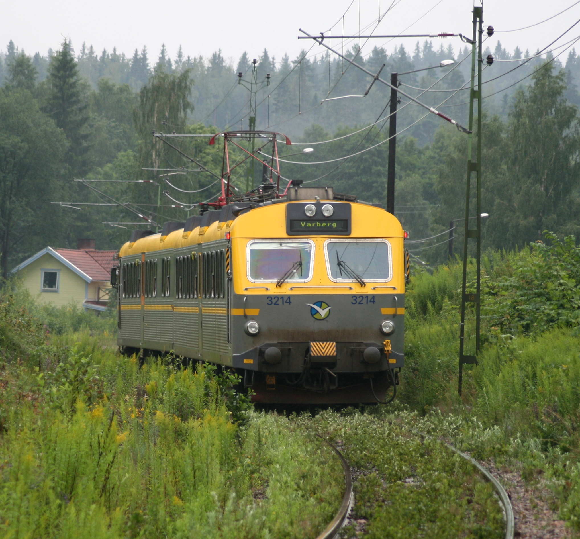 A X12 train on "Älvsborgsbanan" just outside Borås.